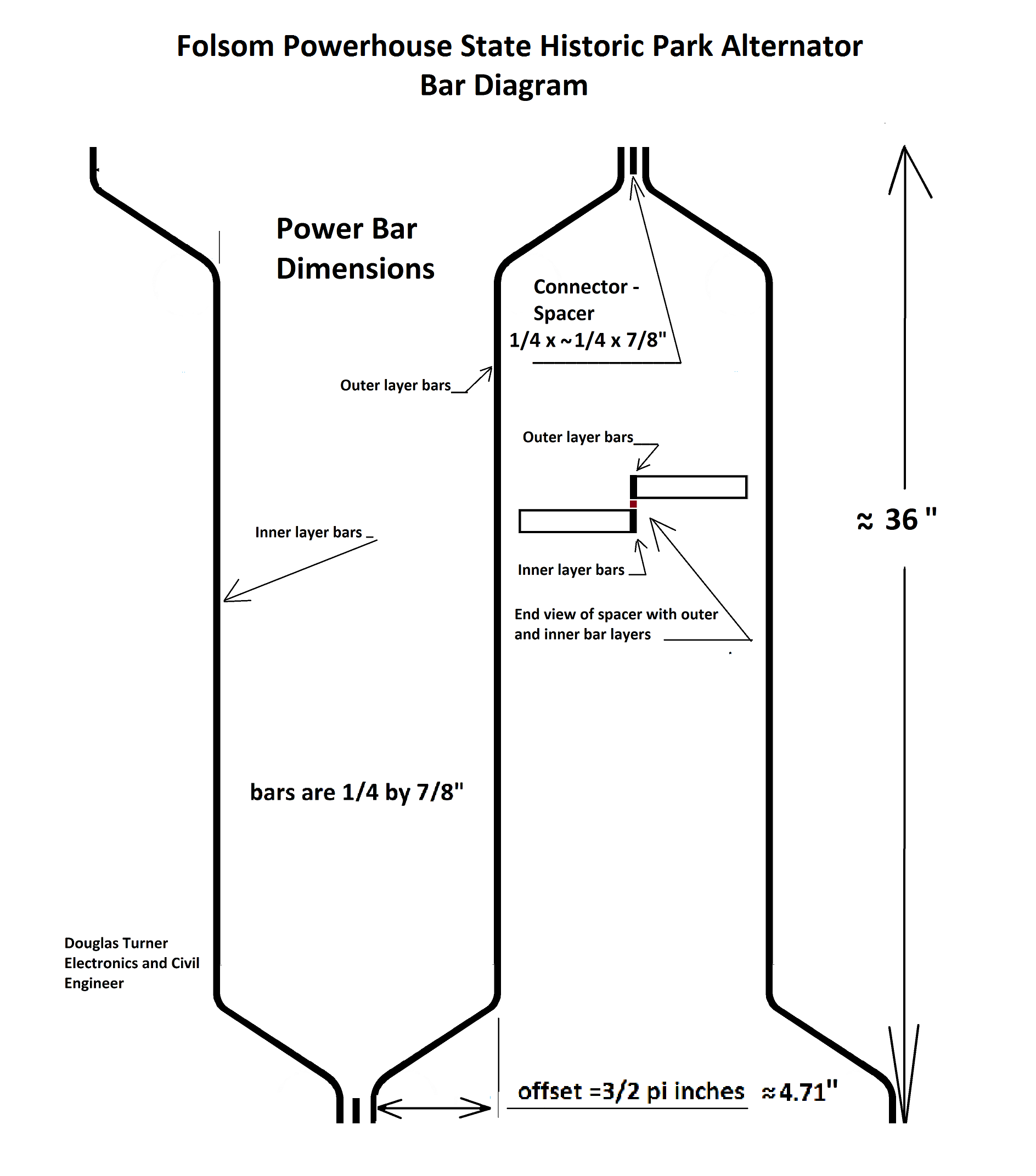 Outside Row Doglegs Right, Inside Row Doglegs Left